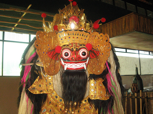 Barong, Bali Safari Park, Indonesia